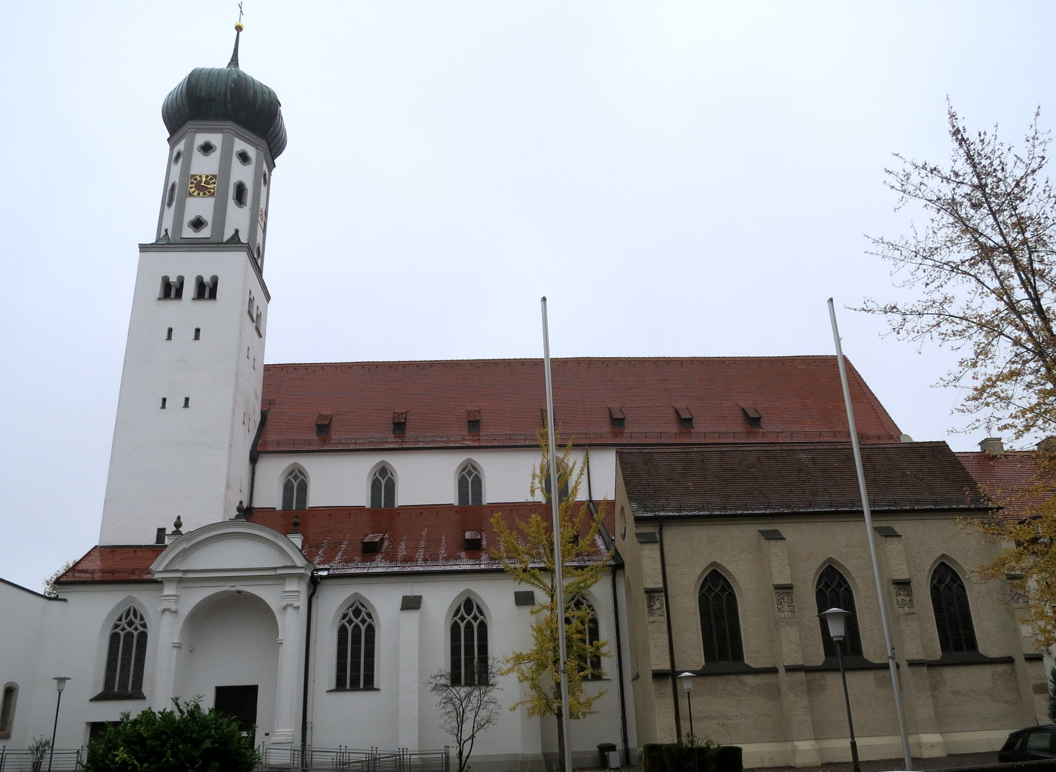 St. Georg is a former church of a monastery, nowadays a parish church